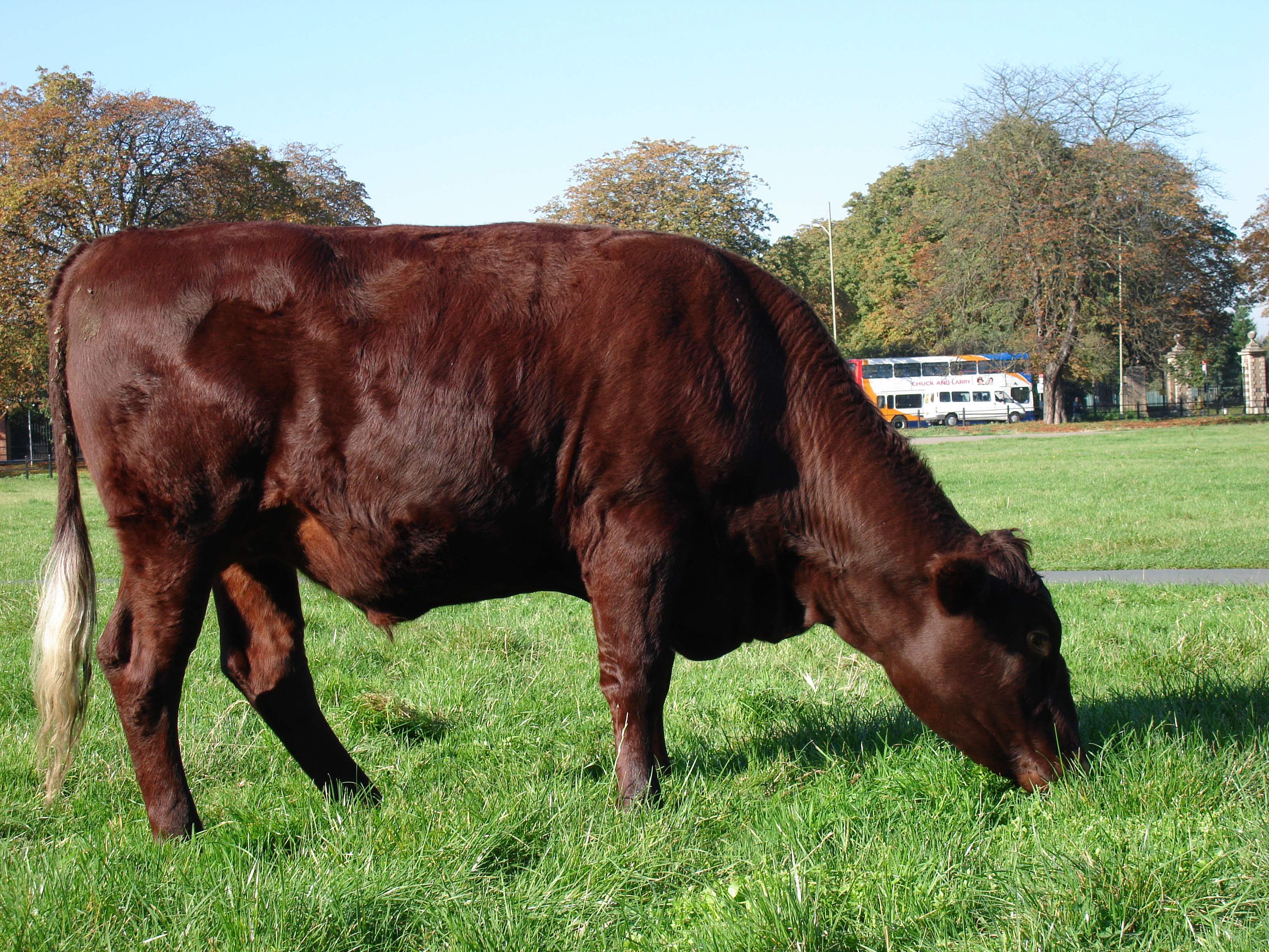 "Sid", one of two remaining Red Poll bullocks on Midsummer Common, Cambridge, as of 19 10 2007